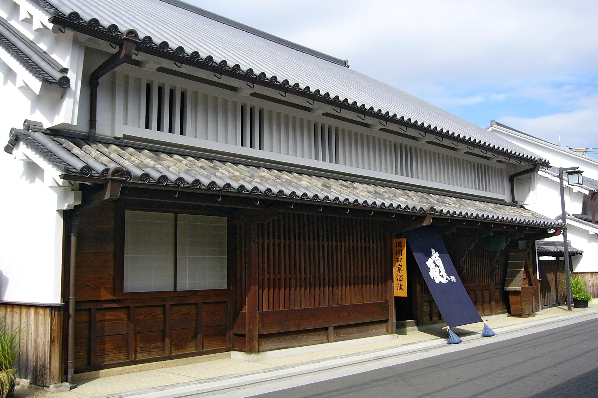 Old Okada House in Itami, Hyogo prefecture, Japan